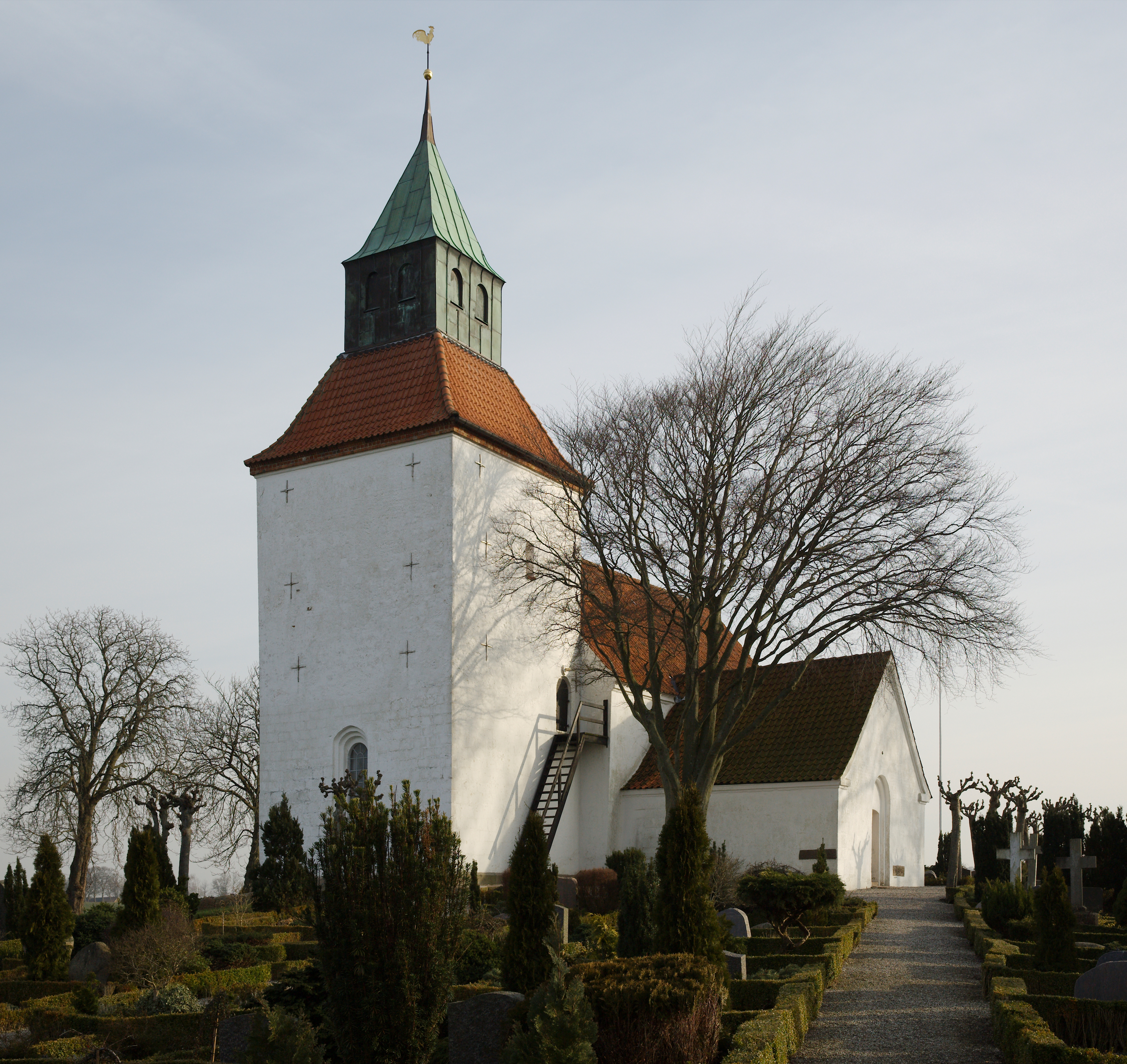 Tiset Church